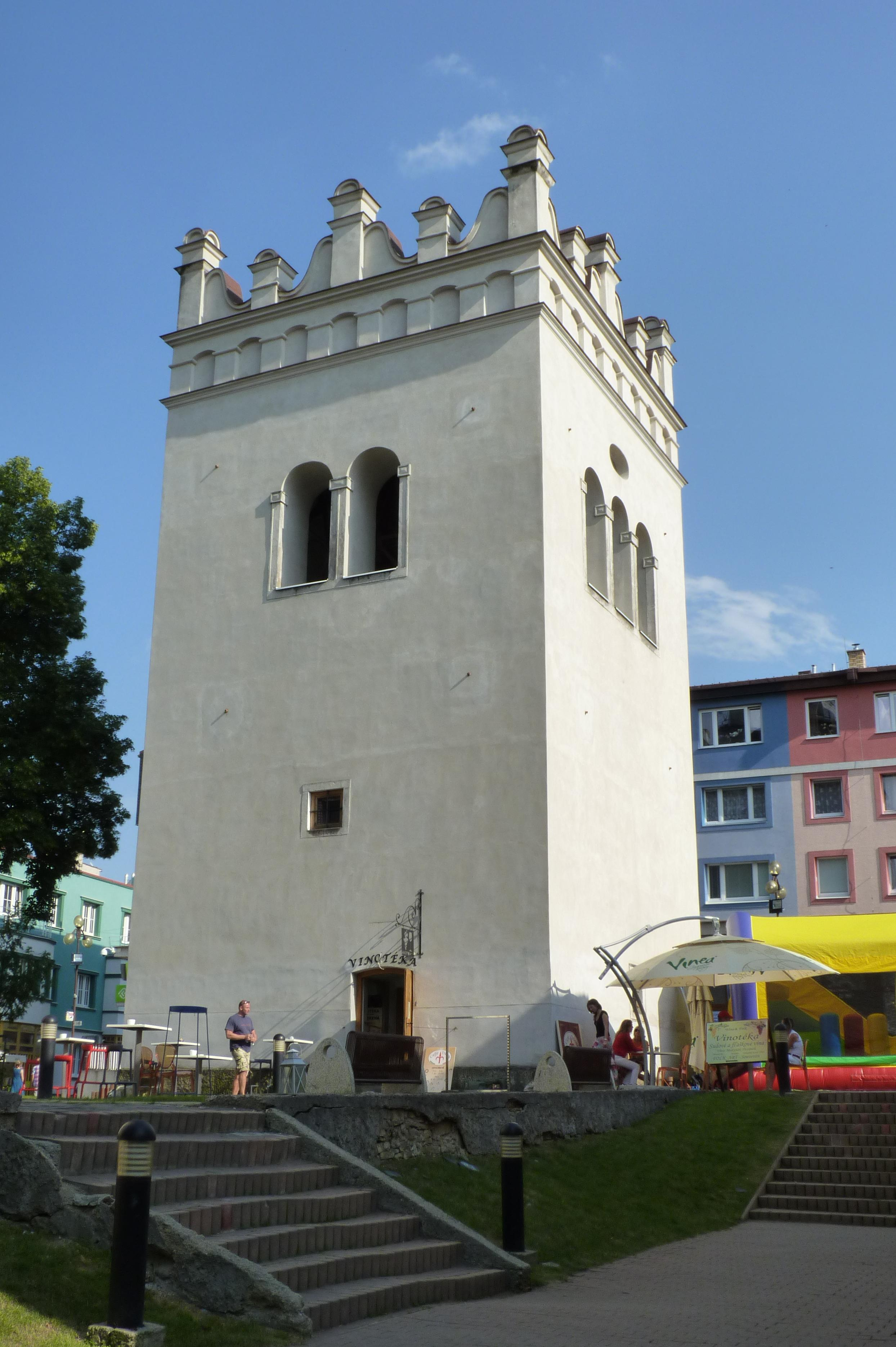 Poprad, Slovakia